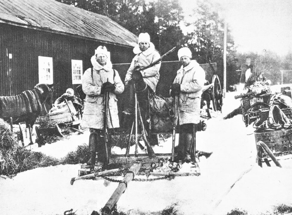 White Guard soldiers in Kyröskoski after the 1918 Finnish Civil War Battle of Kyröskoski.